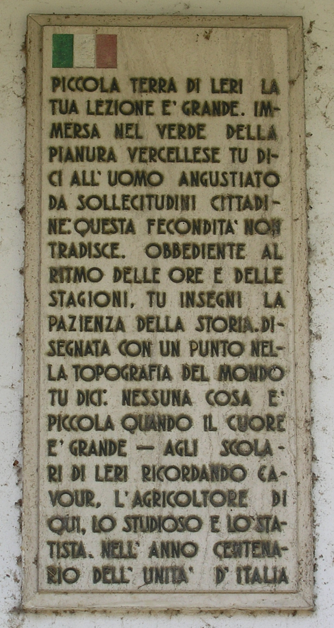 Plate of 1961 on the only modern building on Leri Cavour (Italy)